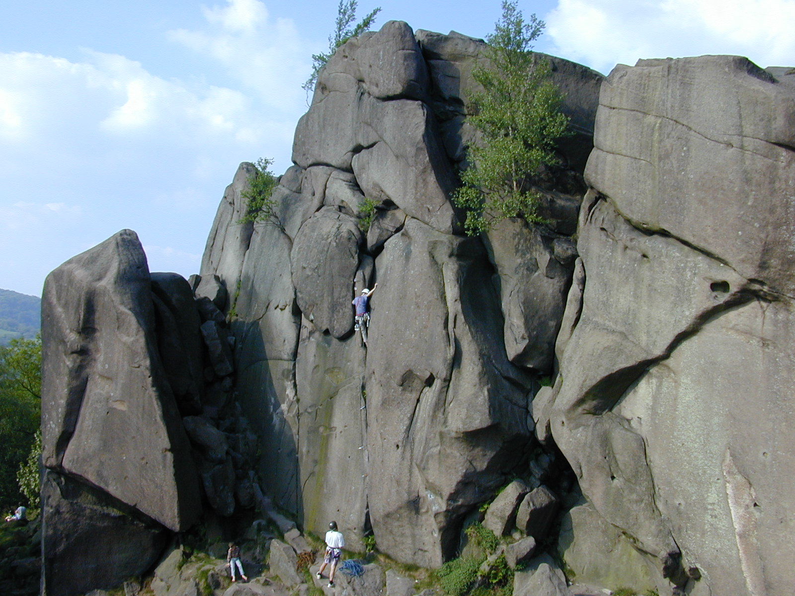 Black Rocks, by William M. Connolley, 2004/05